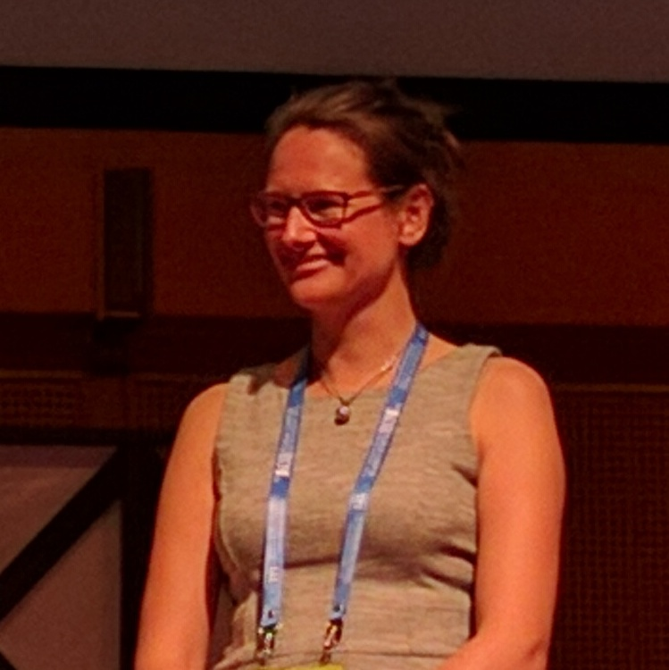 Committee presentation at Wikibomb for Women in Antarctic Research at the Scientific Committee on Antarctic Research 2016 Conference. L-R Jenny Baeseman, Thomas Shafee, Jan Strugnell, Nerida Wilson, Justine Shaw.